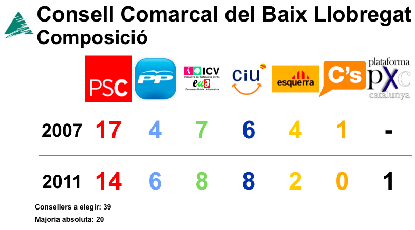 Baix Llobregat (Catalonia) County Council composition